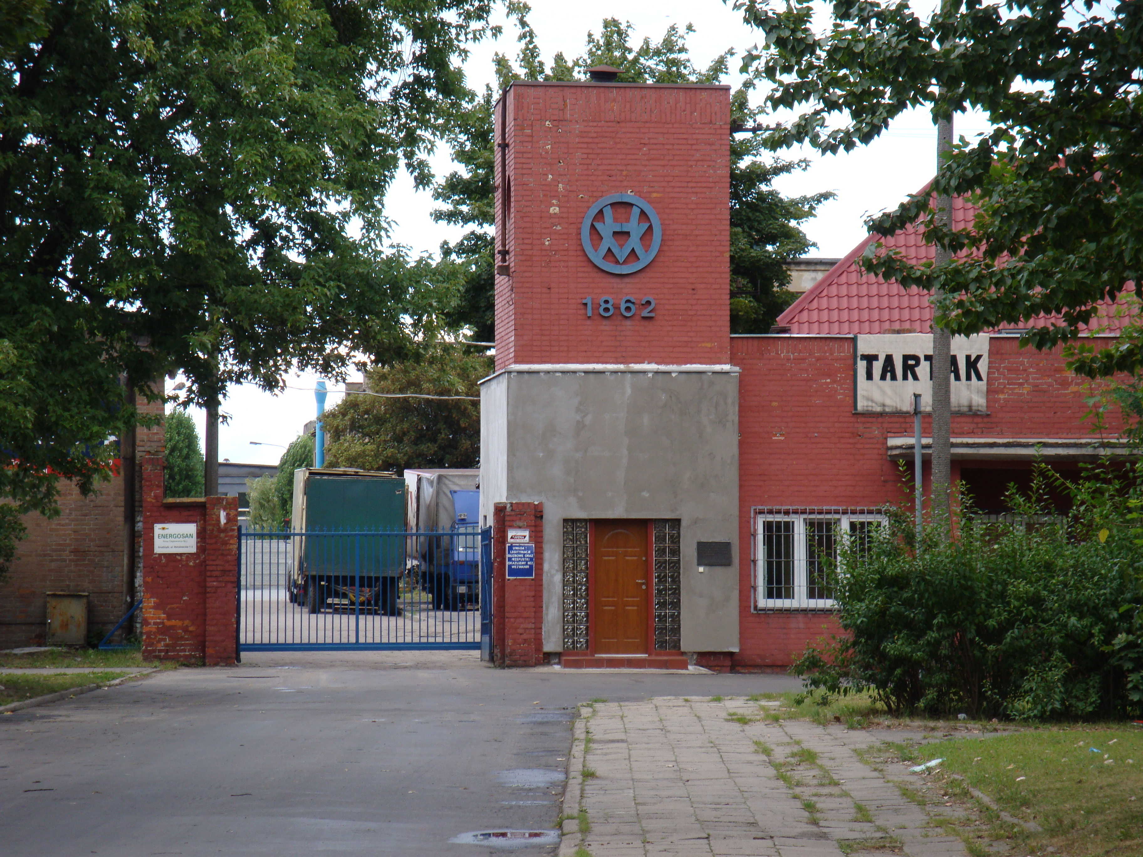 Gate to Hydro-Vacuum factory, Grudziądz, Poland